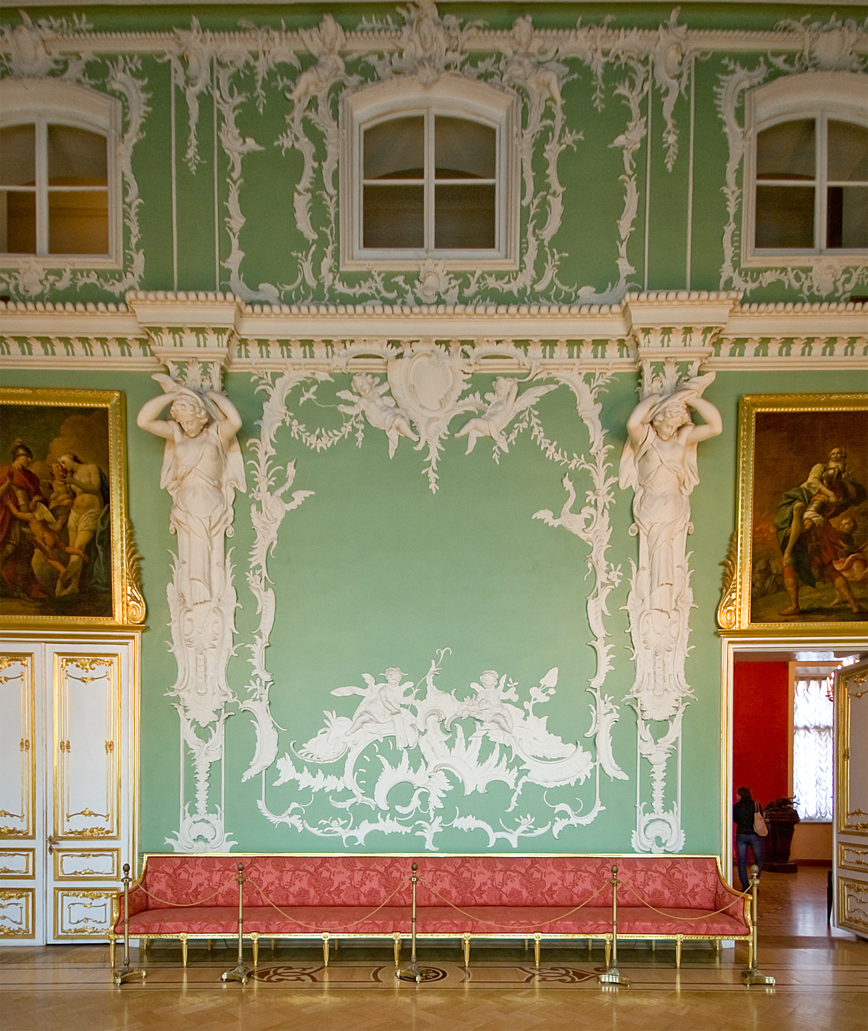 GRAND HALL, Stroganov Palace The interior was designed after the architect Francesco Rastreili's project in the 1750s who had not Finished his work. The plafond represents a painterly composition painted by Italian master Valeriani (central part) and Antonio Pcresitotti. Dessus des portes (paintings above the doors) were painted by unknown master and show Aeneas' story. The restoration was carriied oui with intervals in 1993-2003.